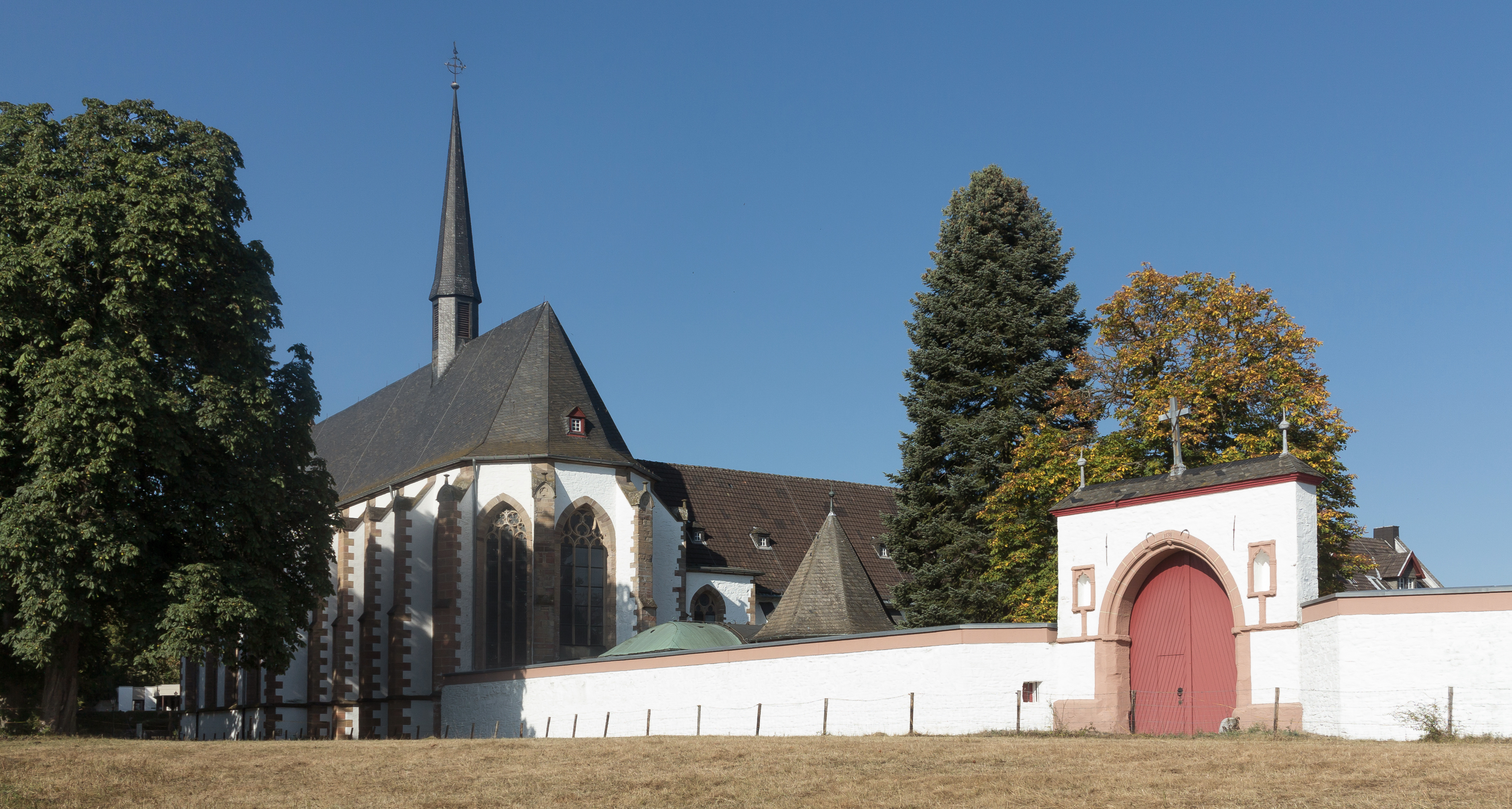 Mariawald, abbeyThis is a photograph of an architectural monument., no. 83